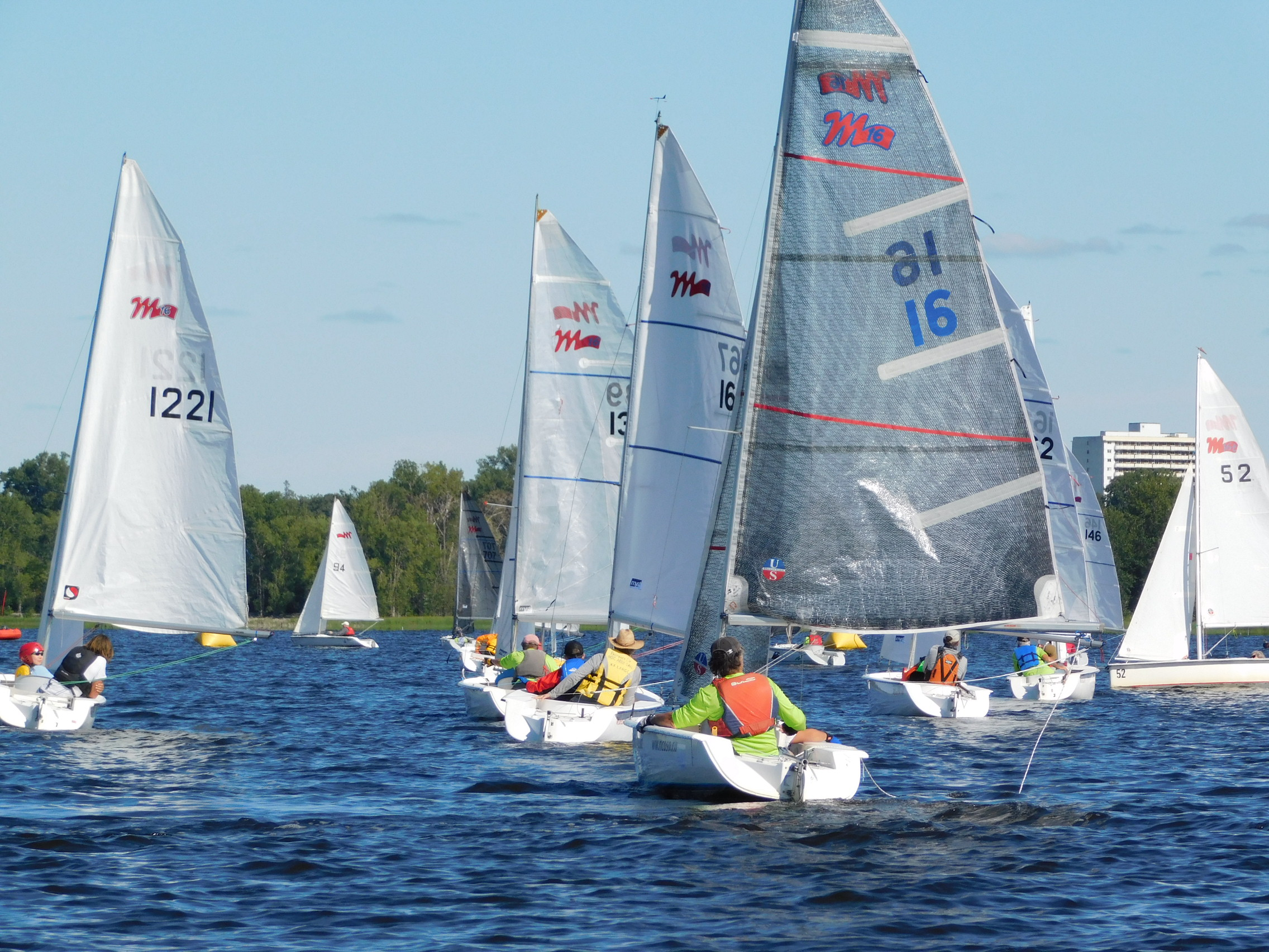 Martin 16s sailing in the Mobility Cup 2019 on Lac Deschênes, part of the Ottawa River.